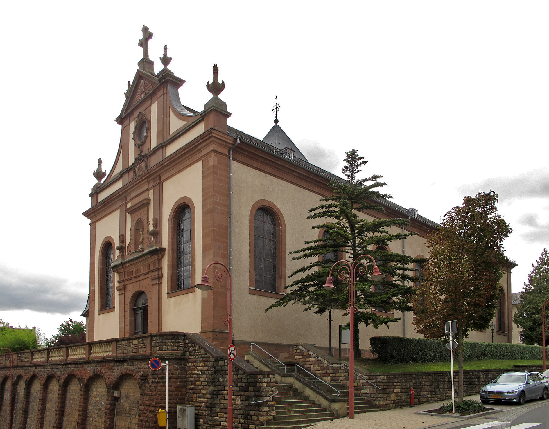 Church of Remich, Luxembourg